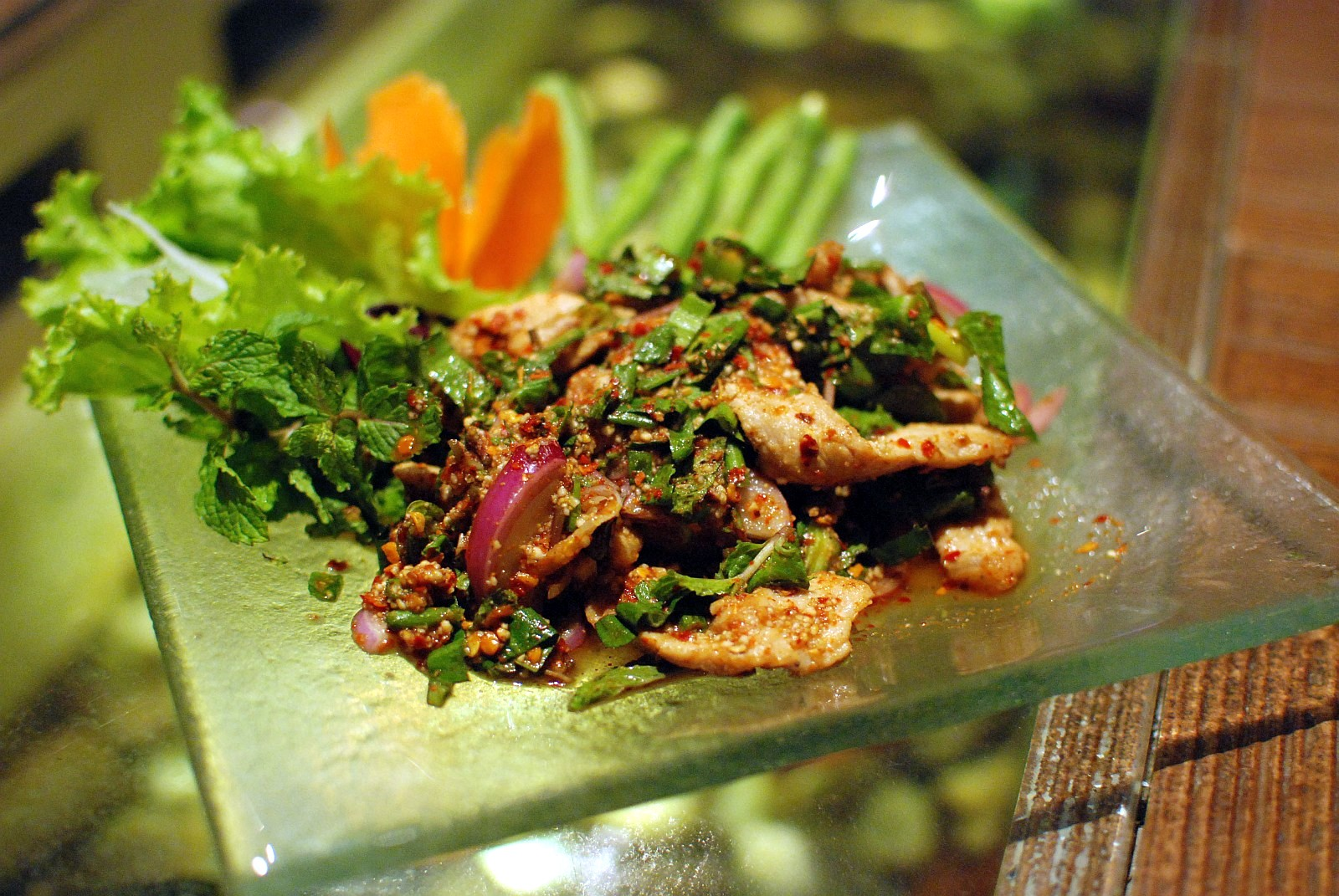 Mu nam tok (Thai: หมูน้ำตก): nam tok means waterfall in Thai, mu is pork. The dish is originally from northeastern Thailand (Isan). There are several explanations why this dish is called this way and none are satisfactory. A plausible theory is that the meat should still contain blood, which will run out from it, when sliced, as a waterfall. The version shown is the quick version where sliced pork is cooked shortly and then mixed in with the spicy sauce and herbs. The more elaborate version calls for the pork to be grilled first until pink and then sliced and mixed in with the sauce and herbs. The last version is correctly called mu yang nam tok (Thai: ย่าง, yang = grilled). You can also find nuea nam tok and nuea yang nam tok using beef instead of pork. The sauce is made with ground roasted rice, ground dried chillies, fish sauce, lime juice, shallots and mint leaves. This one also features some spring onions. It is traditionally eaten with sticky rice.